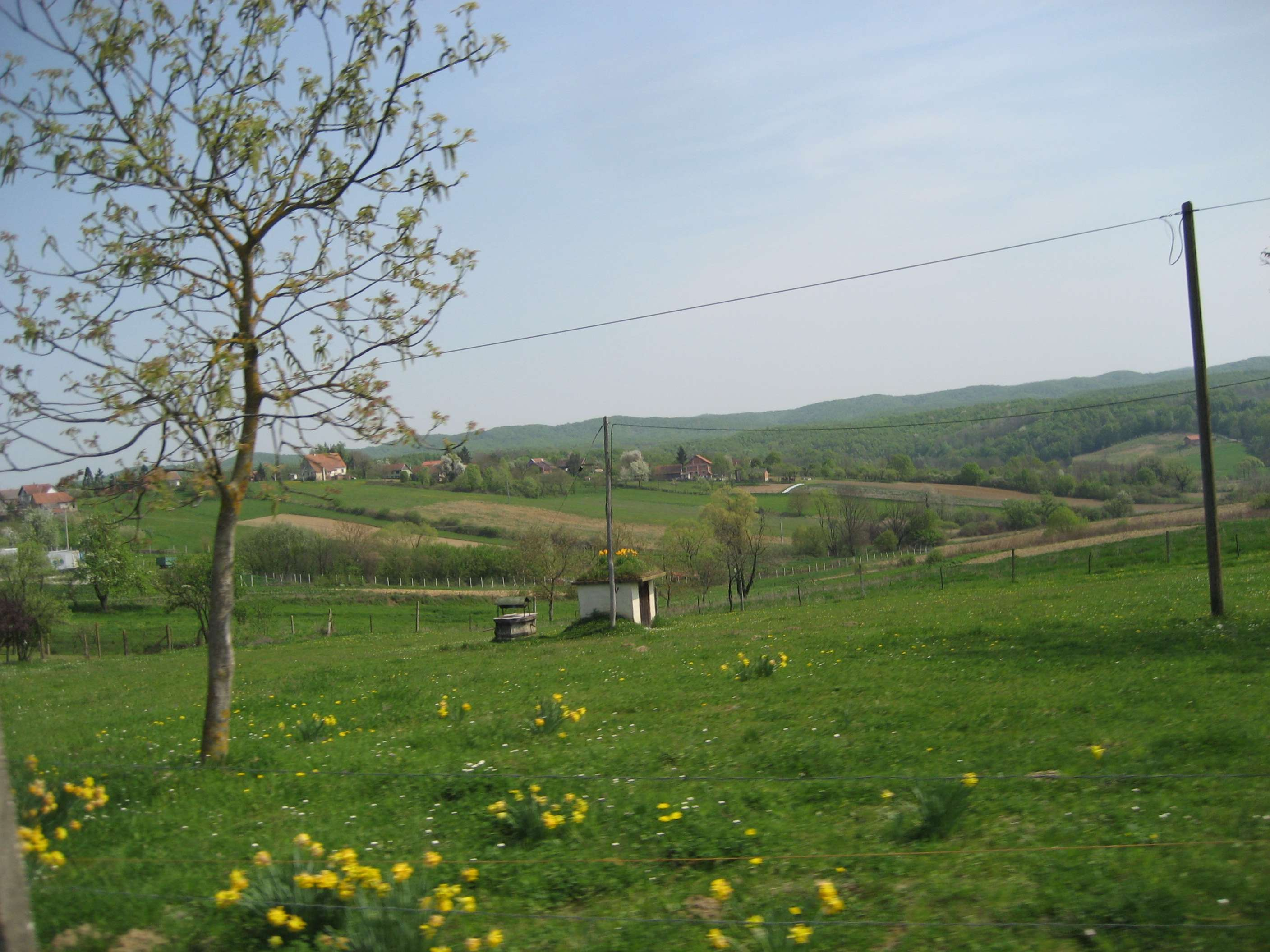 Moslavacka gora, Croatia.